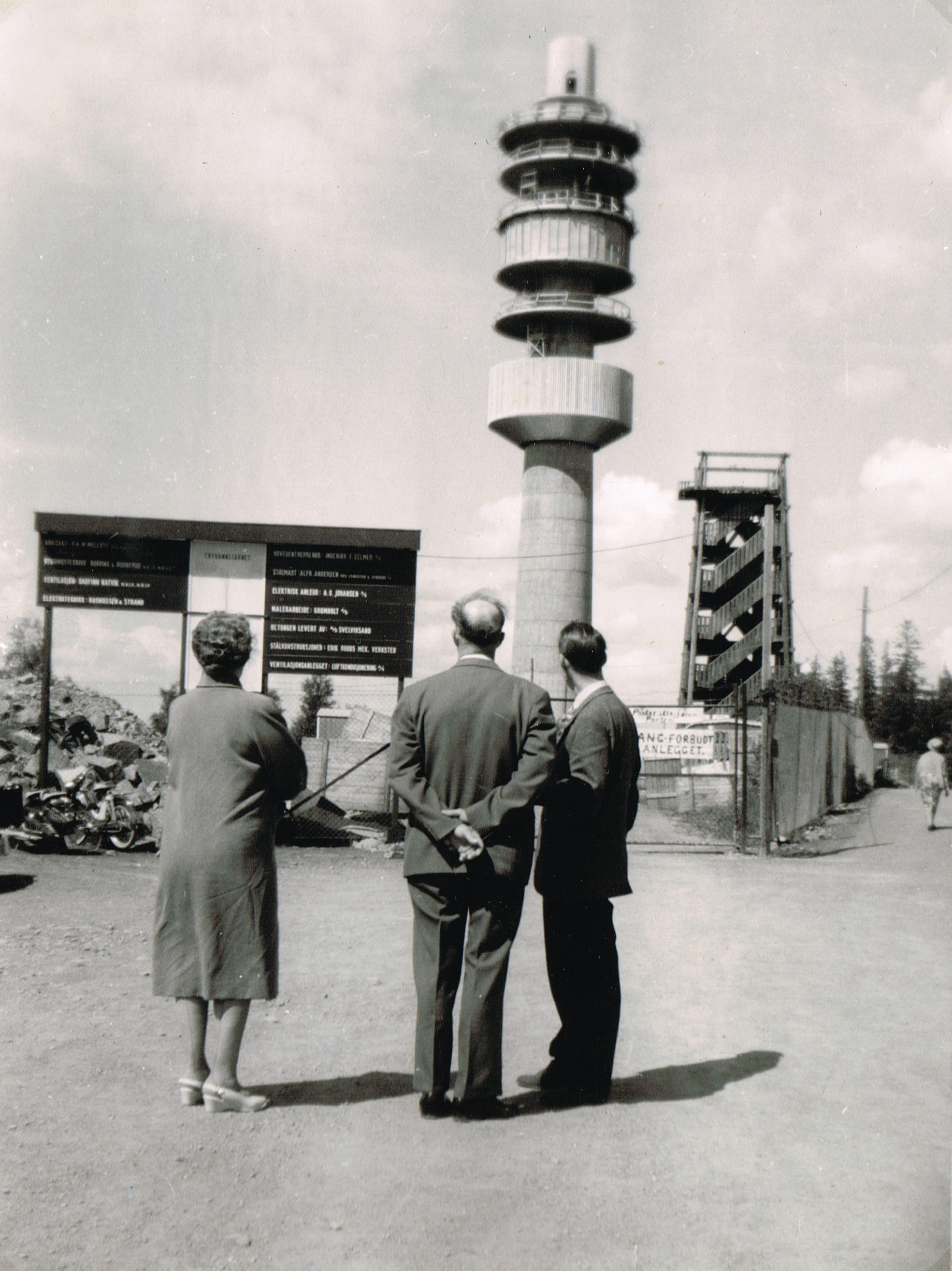 The picture shows the current tower under construction summer 1961, to the right one can see the old wooden tower.